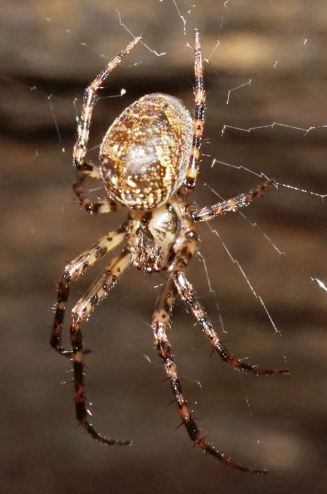 A spider (maybe Metellina merianae) in Luolavuori cave in Jyväskylä.